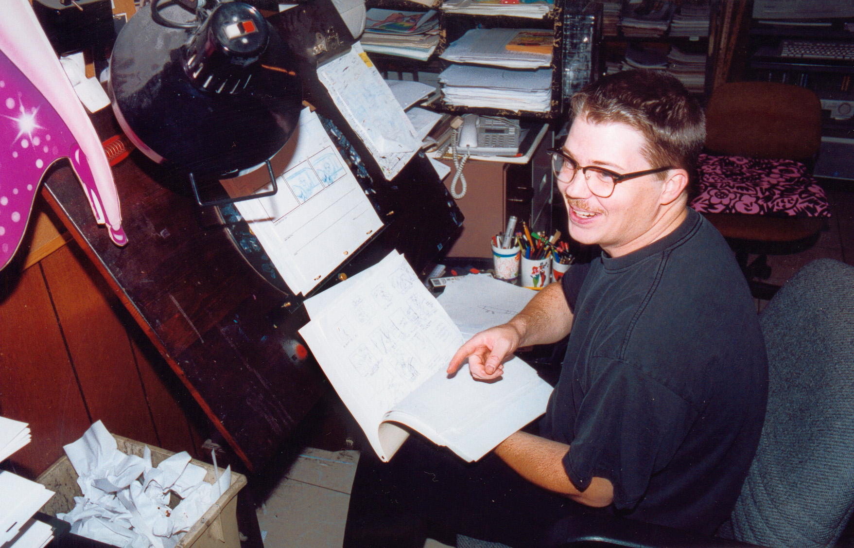 photograph of C. Martin Croker in his home studio in Atlanta, taken July 2001